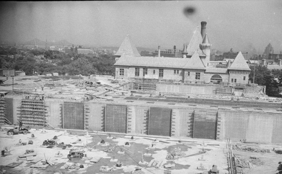 For documentary purposes the original description provided by BAnQ has been retained. Additional descriptive text may be added by Wikimedians with the wiki description = parameter, but please do not modify the other fields.